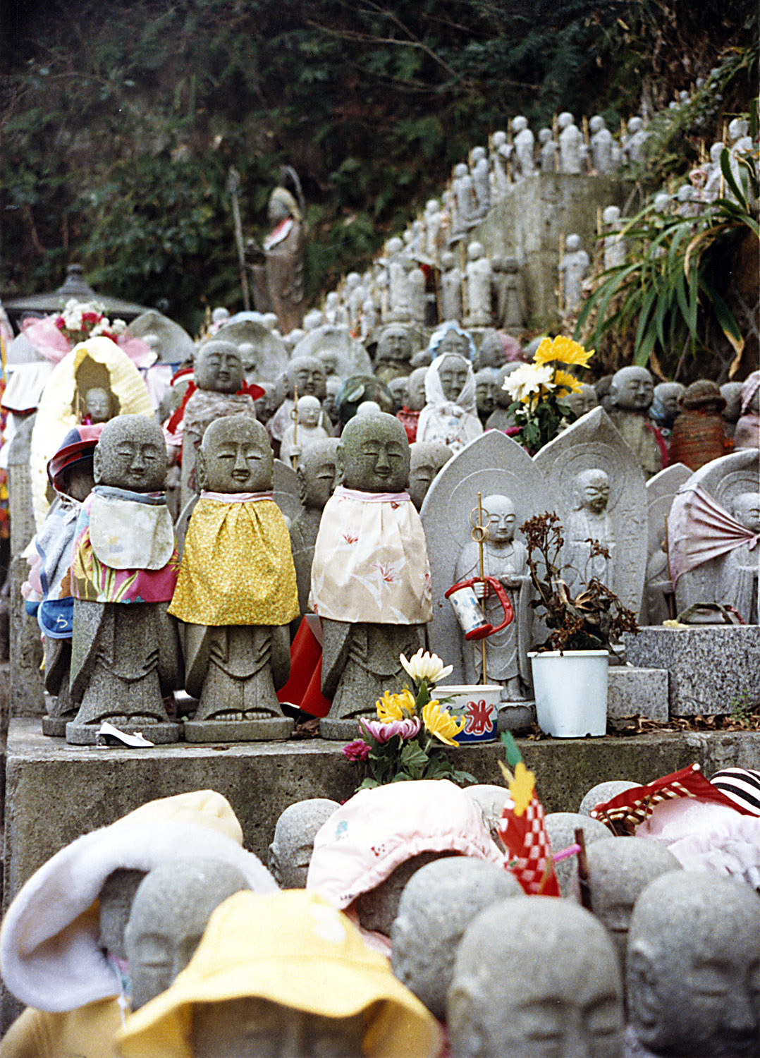 Statues of Jizo at Hase-dera, Kamakura, Kanagawa Prefecture, Japan. I took this photo and contribute my rights in it to the public domain; individuals and organizations retain rights to images in it.